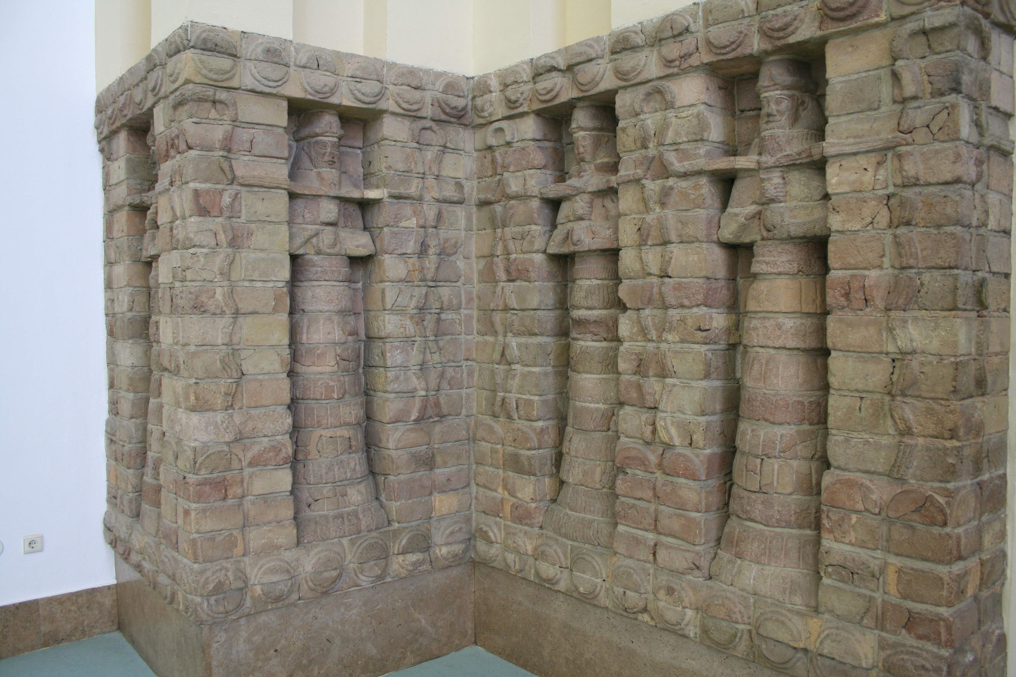 Vorderasiatisches Museum (Near East Museum), Berlin